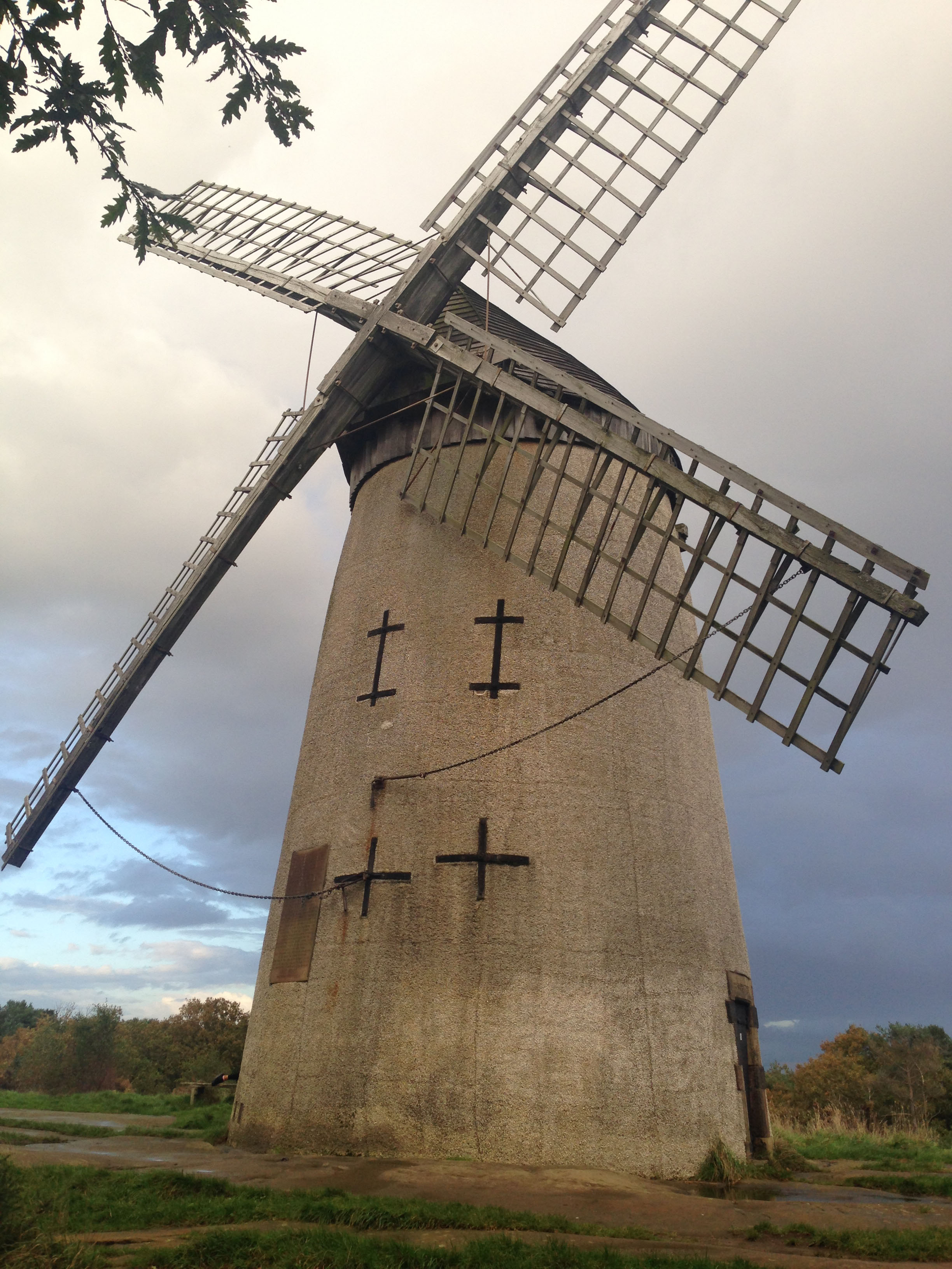 Front View of Bidston Windmill